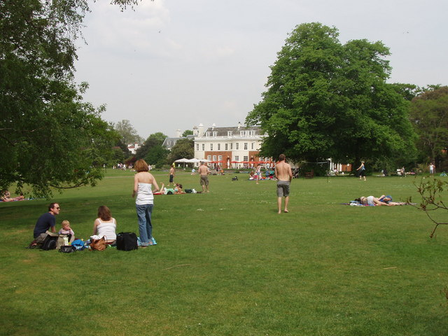 Picnics and play in Cannizaro Park On a sunny saturday the lawns of the public Cannizaro Park were a popular destination. Cannizaro House seen beyond the lawns is a hotel .